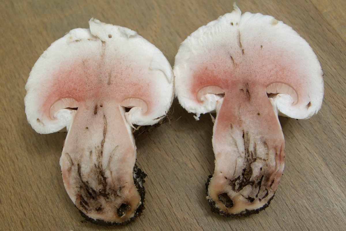 Scientific Name: Agaricus bitorquis Common Name: Torq Certainty: pretty sure (notes) Location: Southern California; Pasadena; Madison Heights Button sliced in half showing "rufescent" stain nicely. Actually, I'm told this could well be an A. bernardii. We'll never know, will we?